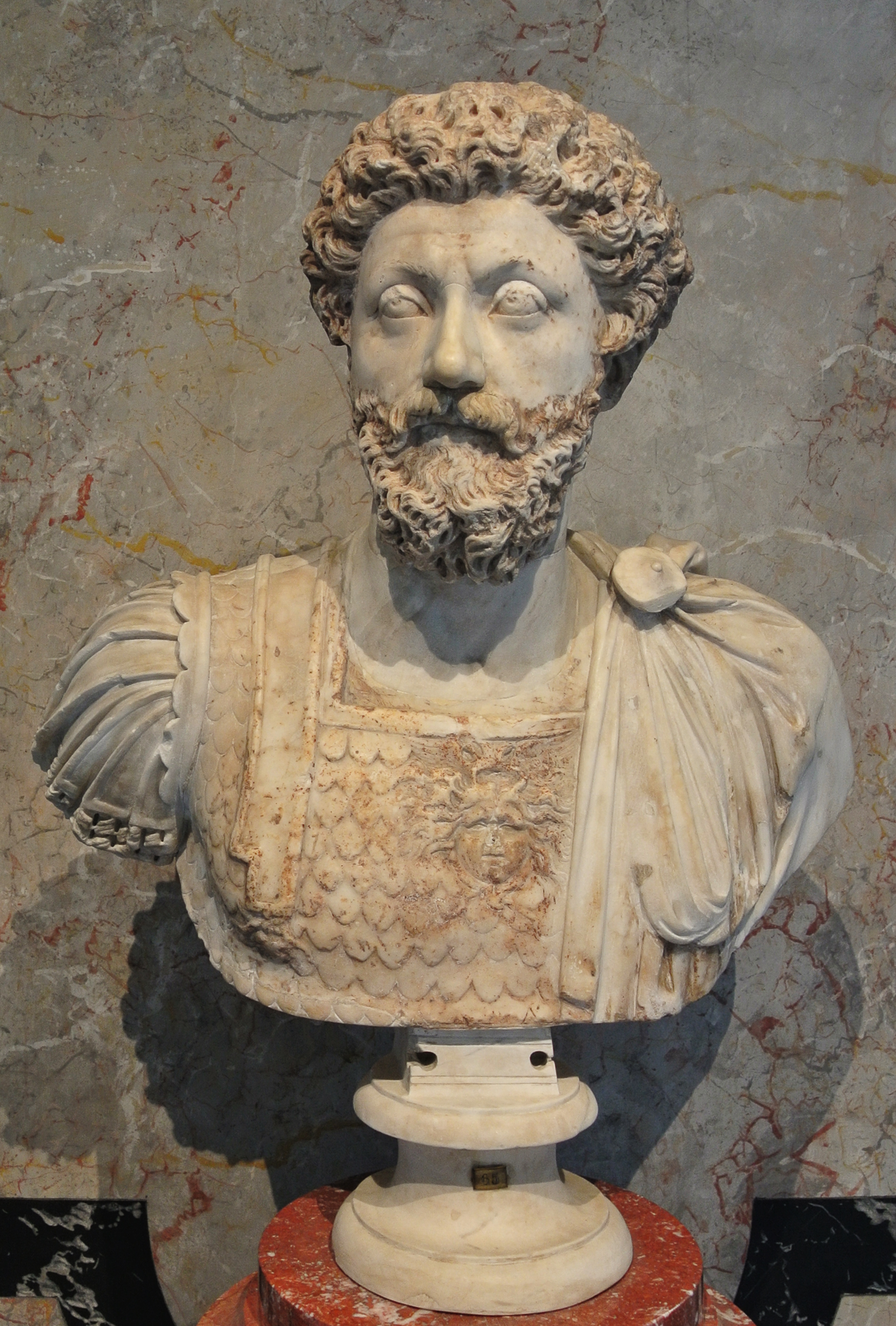 Ancient Roman bust of Emperor Marcus Aurelius